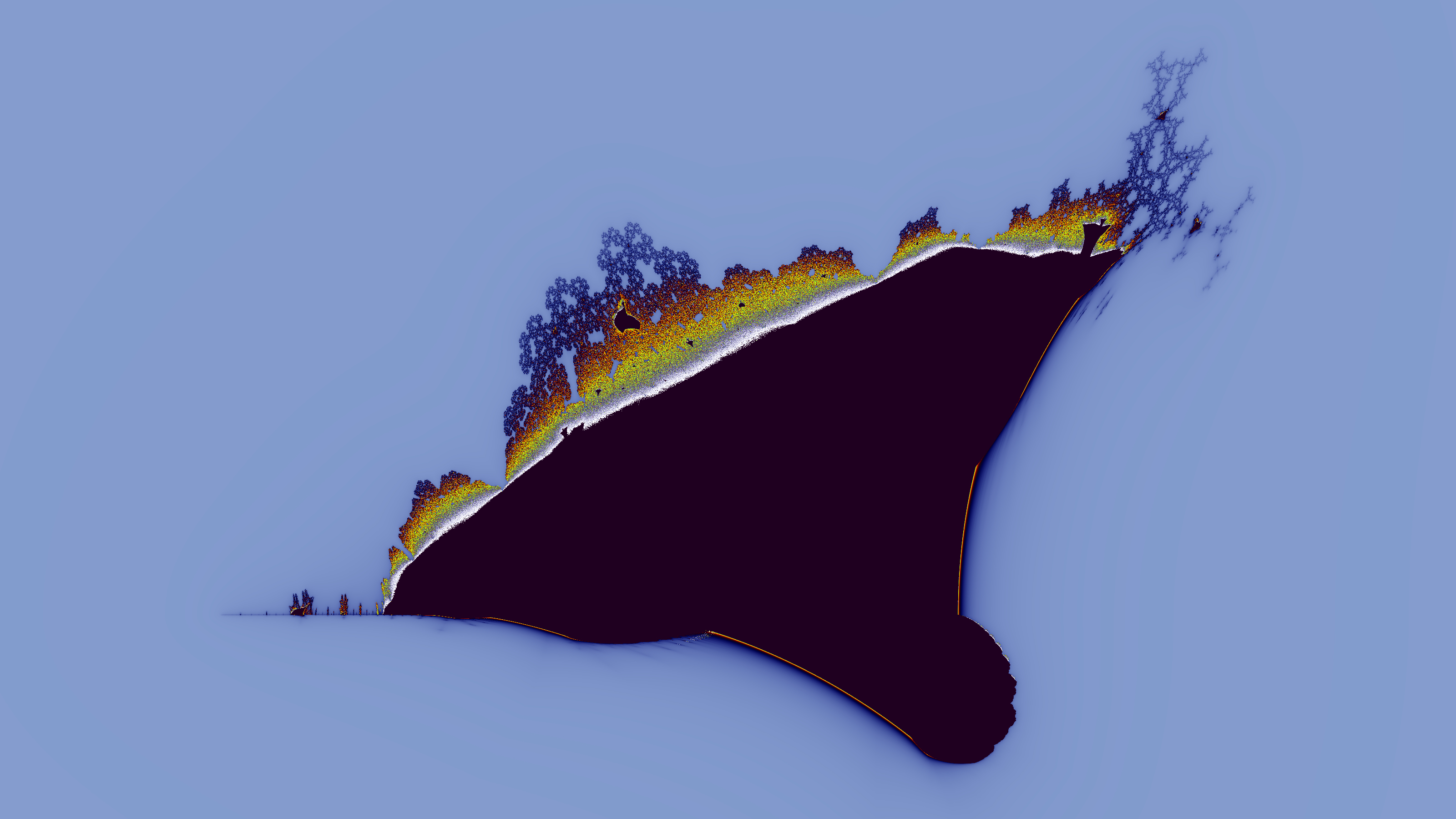 A high-resolution rendering of the Burning Ship fractal with 5X oversampling (5 samples per pixel) using the Median Filter.